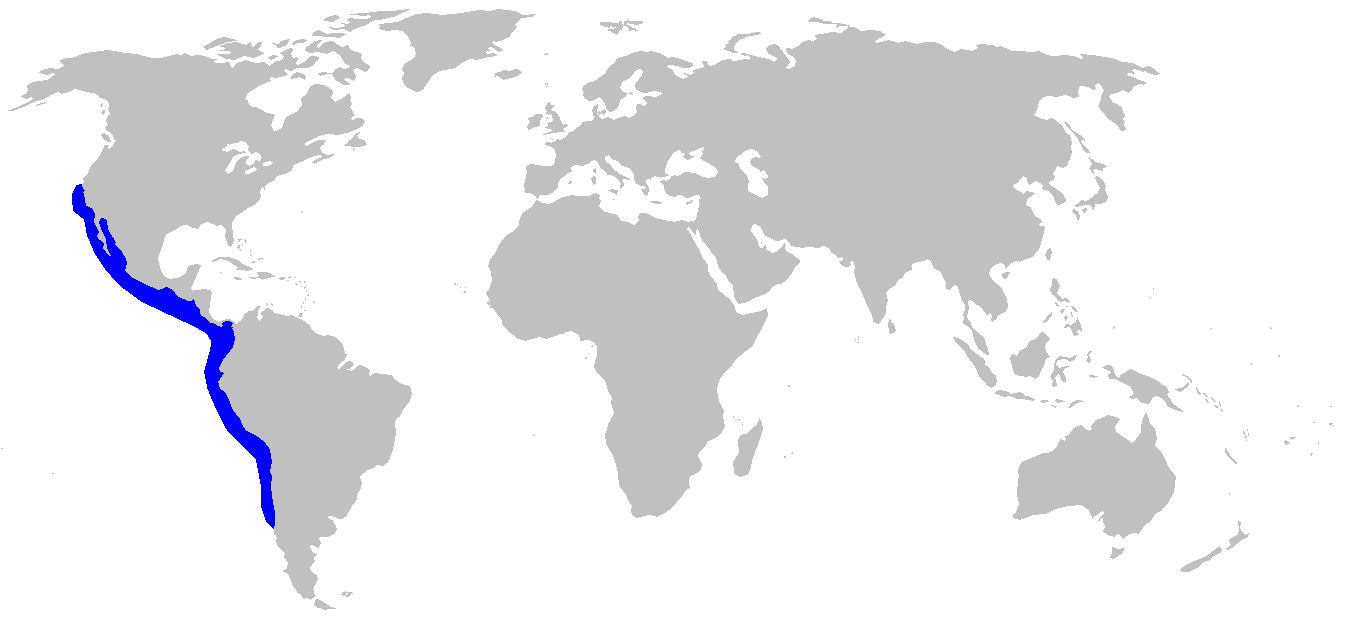 Distribution map for Cephaloscyllium ventriosum